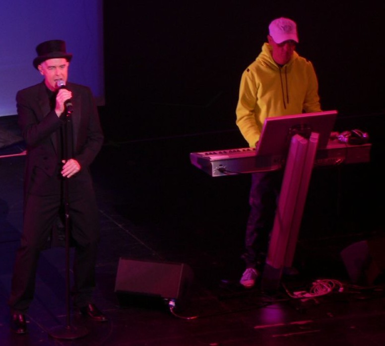 Pet Shop Boys live at The Opera House, Boston, on October 13, 2006.